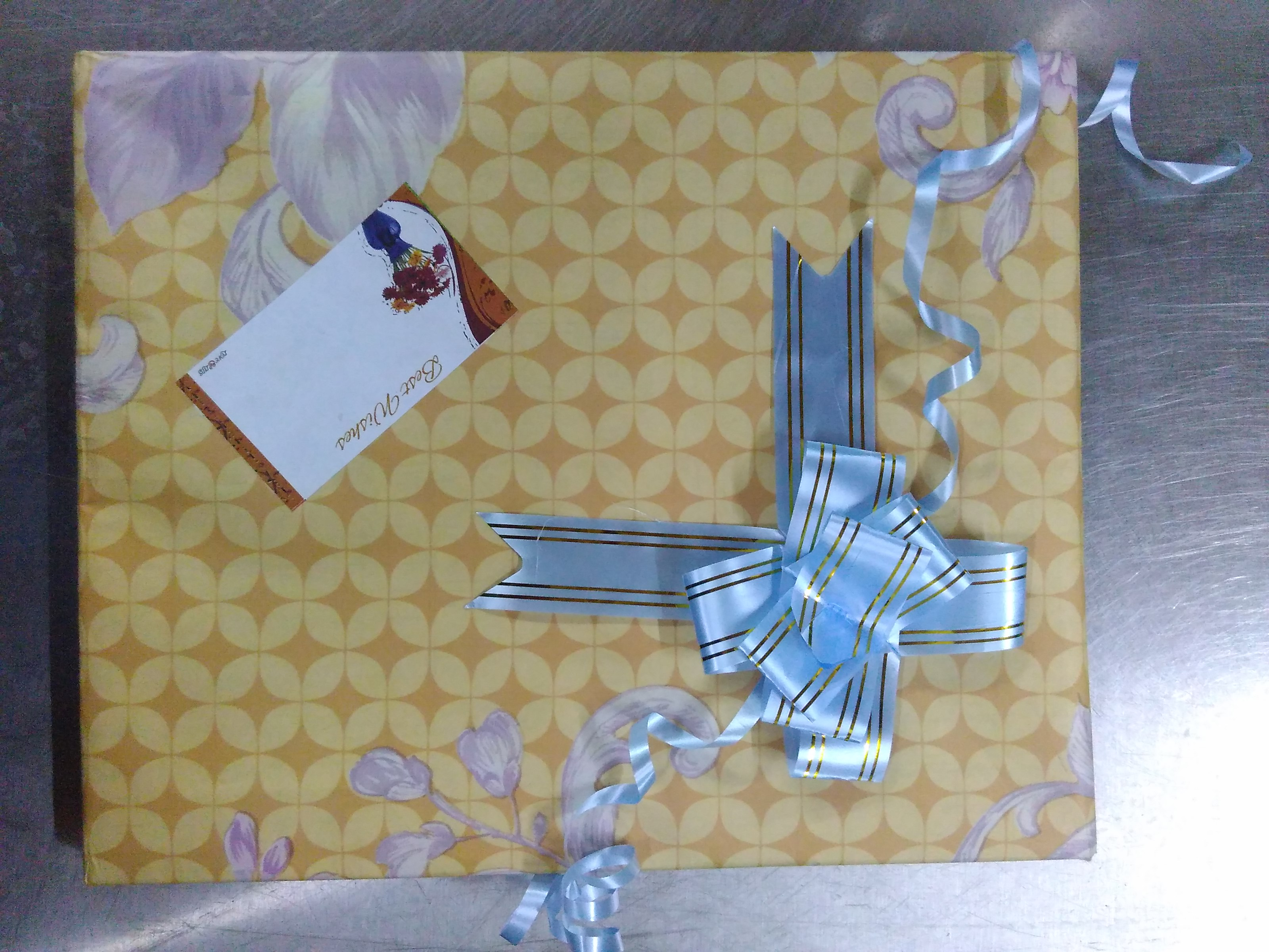 gift packing